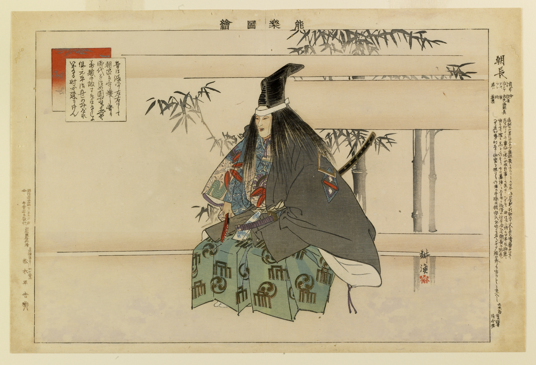 Following defeat in battle during Japan's civil wars, Minamoto Tomonaga (1144-60) was bedridden by an inflamed arrow wound. Realizing he was holding back efforts to raise more troops, he asked his father to kill him. Tomonaga's grave was subsequently violated by a member of the enemy Taira clan, and his head was sent to the capital. It is the ghost of Tomonaga, still haunting his grave site, who recites his tale on stage.